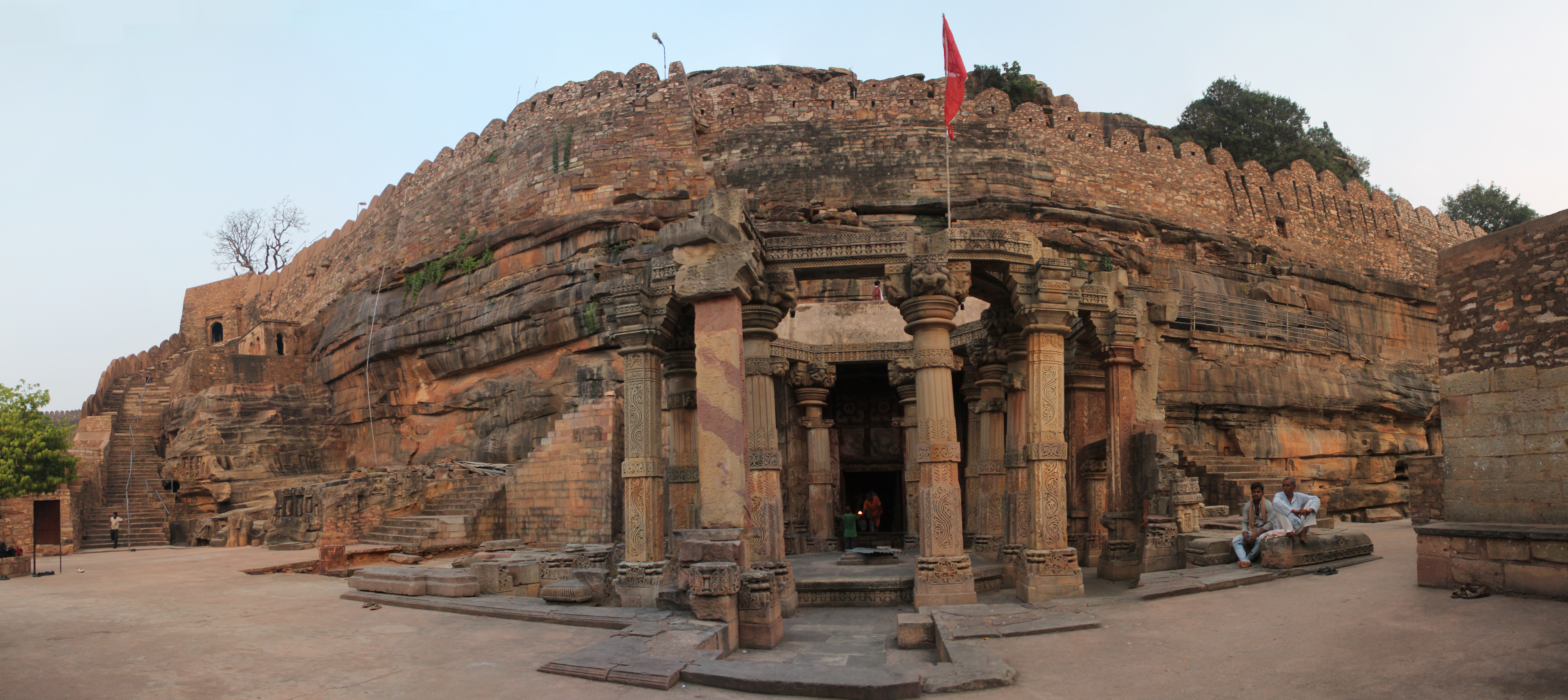 Panoramic view of Kalinjar Neelkanth Temple